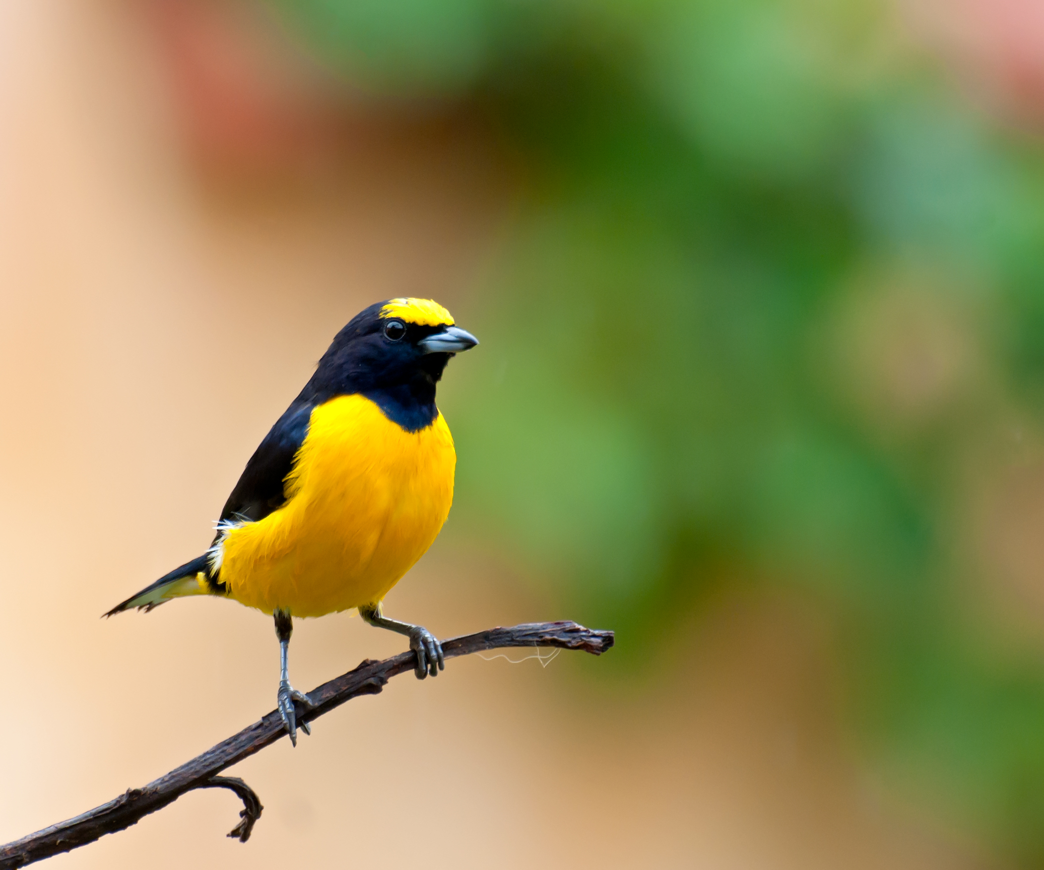 A male Purple-throated Euphonia in Piraju, São Paulo, Brazil.